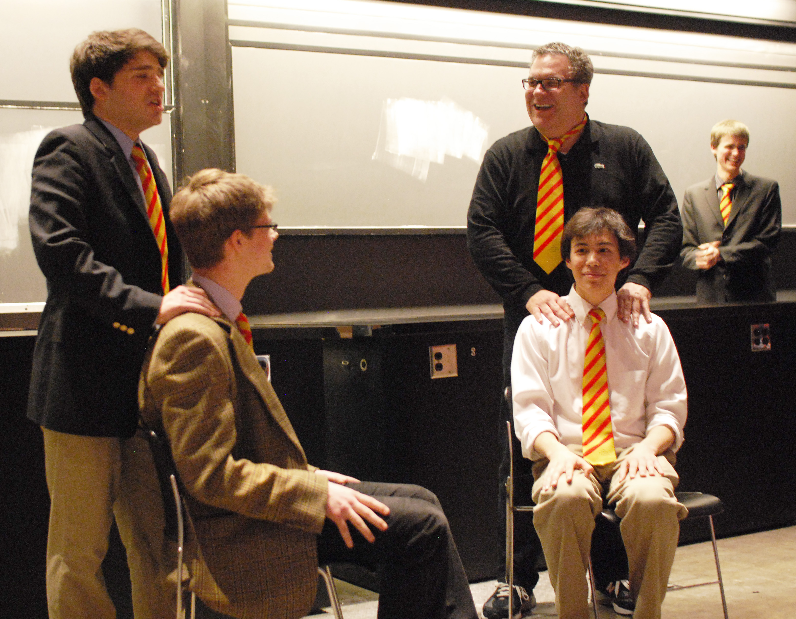 Photograph of comedian Jeff Garlin performing with The Immediate Gratification Players, a Harvard College improvisational comedy troupe.